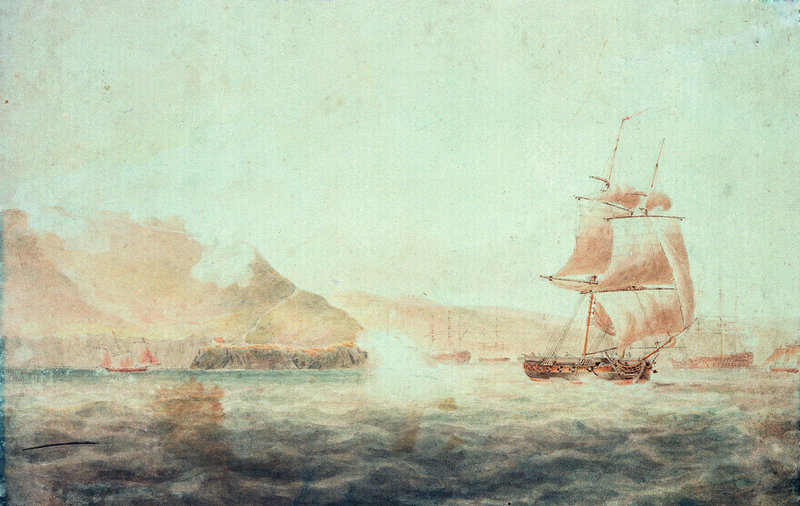 Title: French batteries firing at the brig 'Childers' off Brest 1793